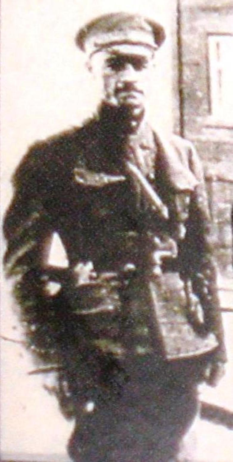 Nikifor Grigoriev, the warlord who joined the Bolsheviks in the Russian civil war in Ukraine. Killed in 1919.